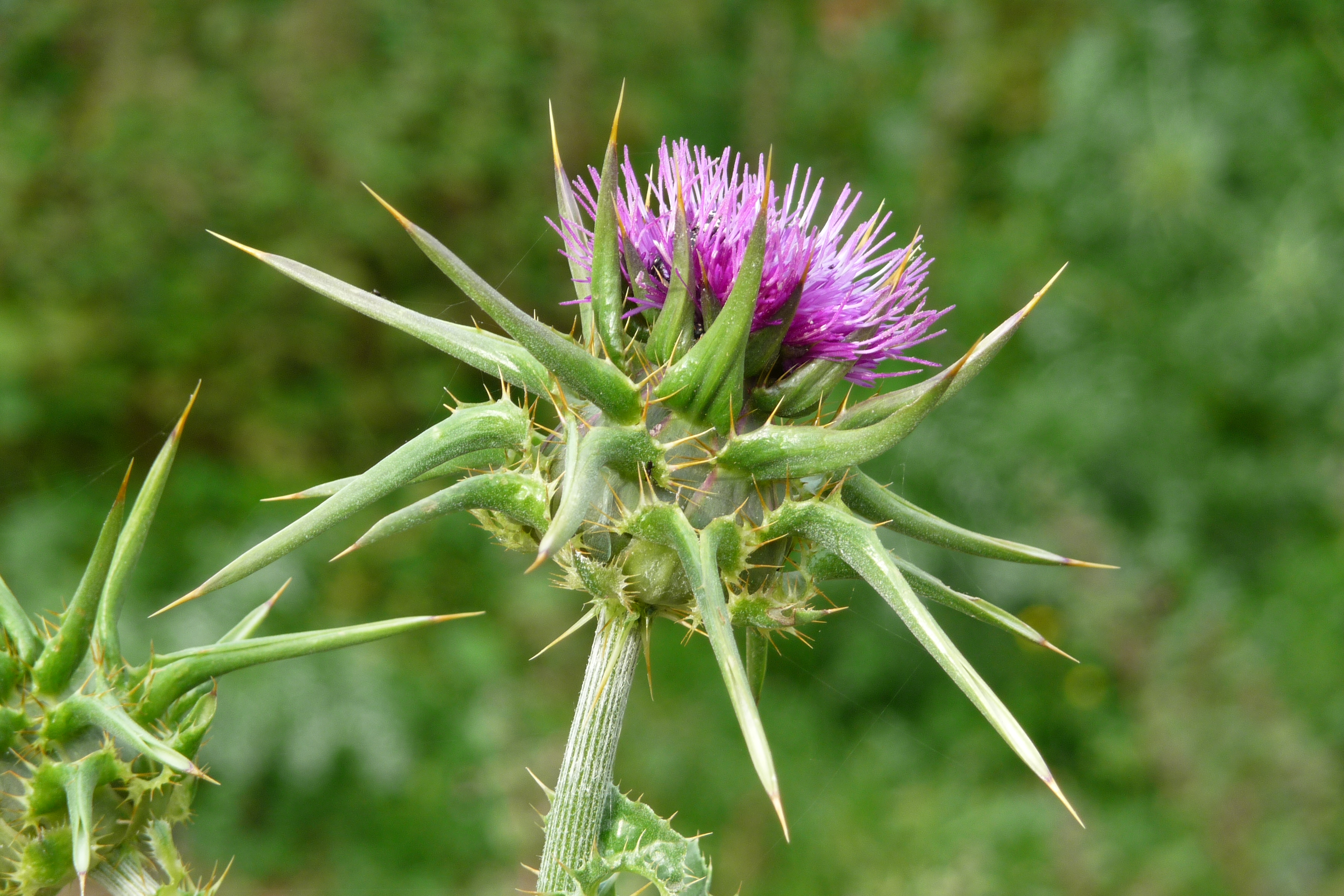 Beit Oren is a kibbutz in northern Israel. It falls under the jurisdiction of Hof HaCarmel Regional Council.